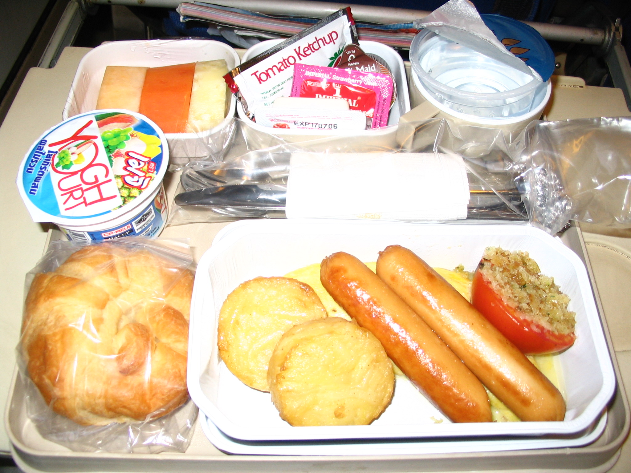 Air India Meal